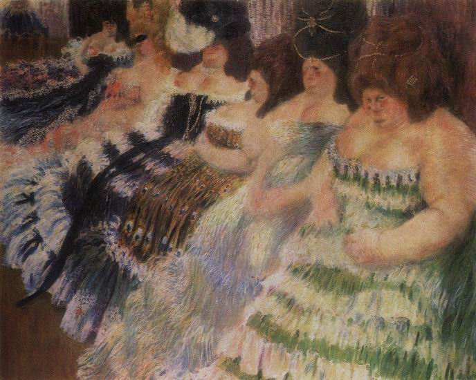 "The Fat Women" by Igor Grabar, 1904. According to Grabar's memoirs (in